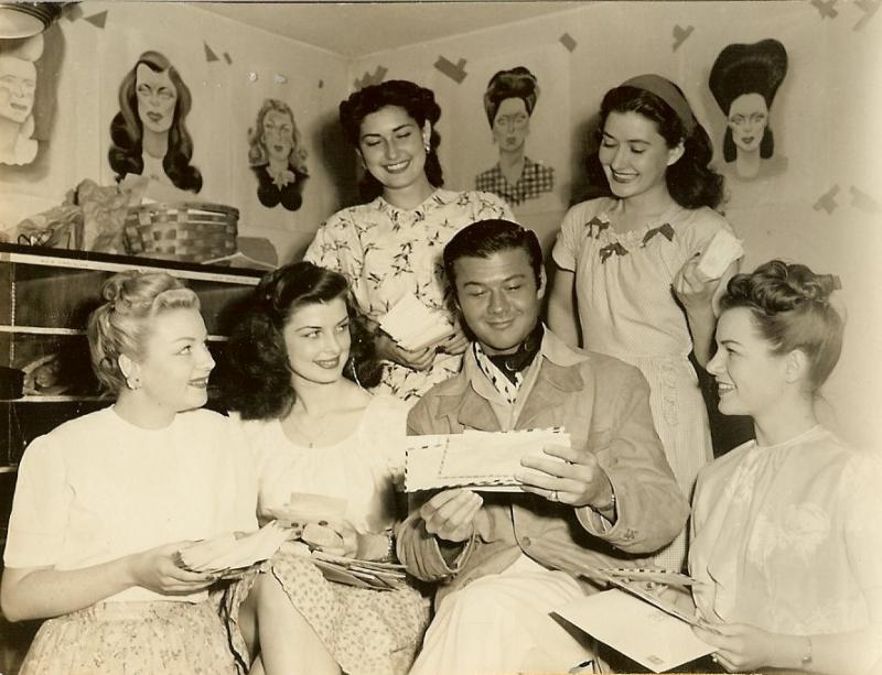 Publicity photo: Turhan Bey with Universal Studios mailroom workers Ann Ross, Nancy Howard, Peaches Alphin, Rose Moromarco, Alva Lacy?